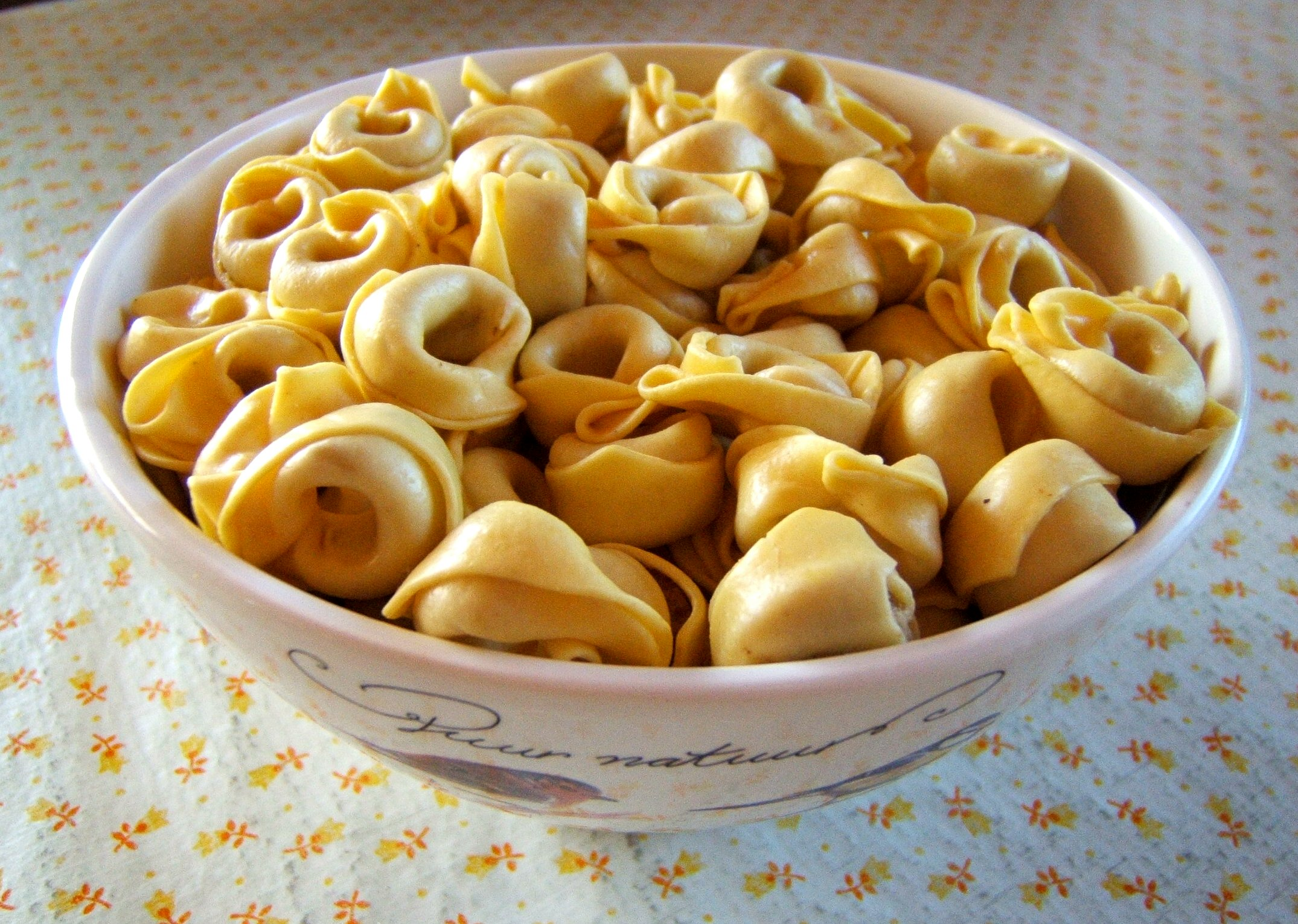 Bowl of Tortellini.